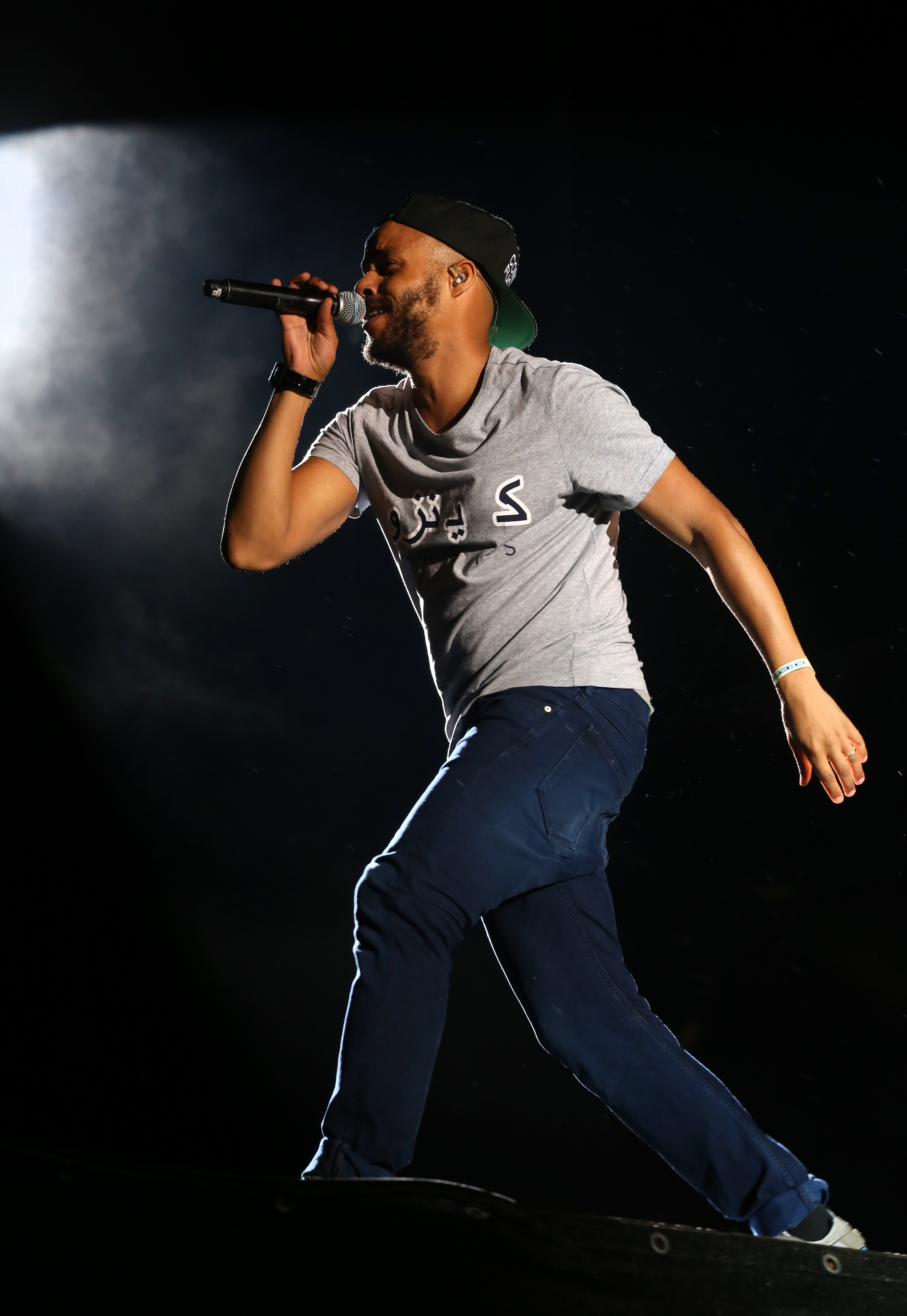 Beginner at Chiemsee Reggae Summer Festival 2013